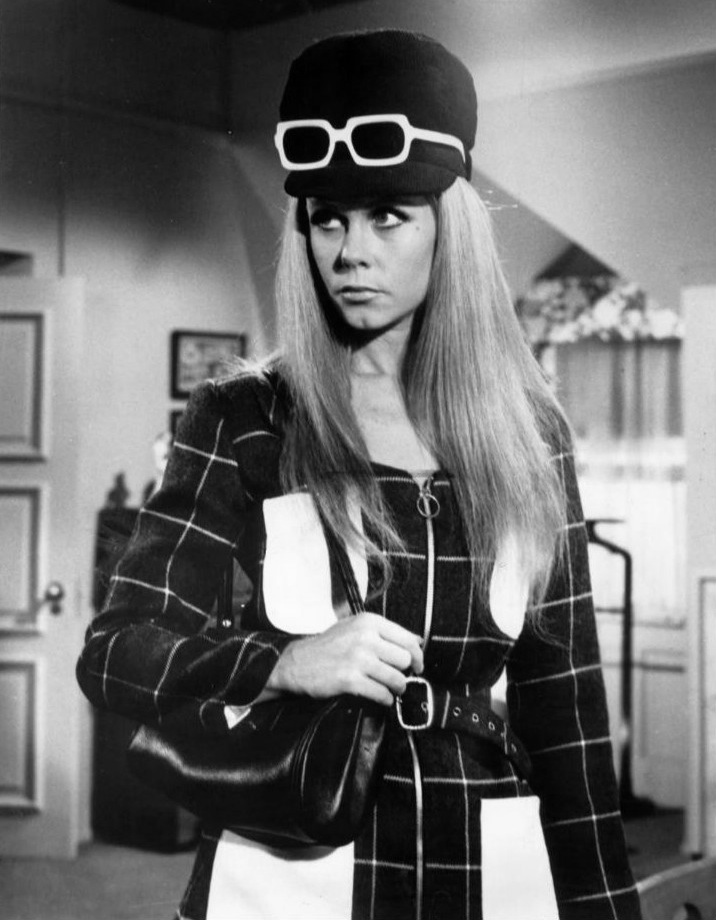 Photo of Elizabeth Montgomery as Samantha from the television program Bewitched. The episode is "Hippie, Hippie, Hurray!".